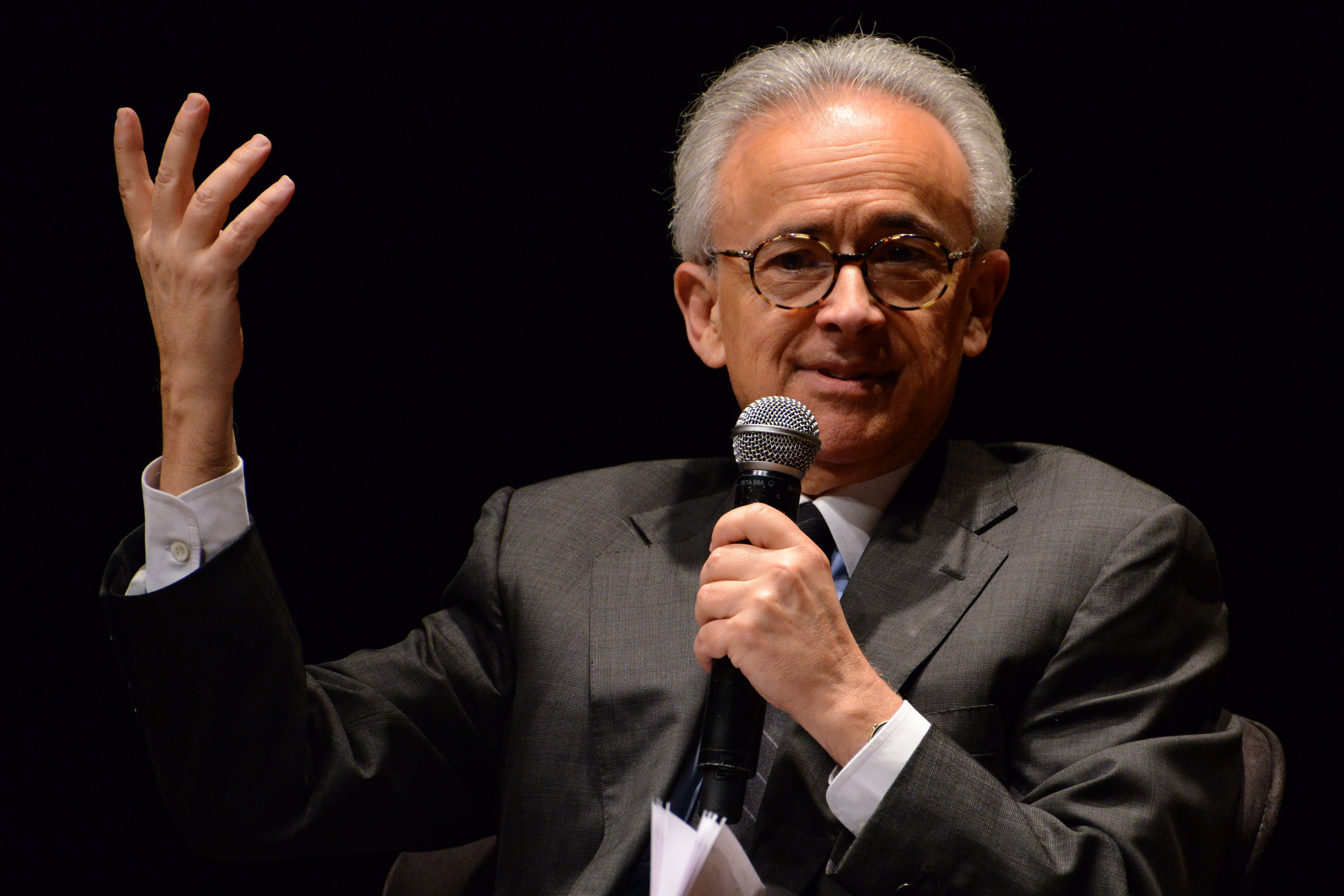 Antonio Damasio at "Fronteiras do Pensamento" in Porto Alegre, Brazil, 2013.